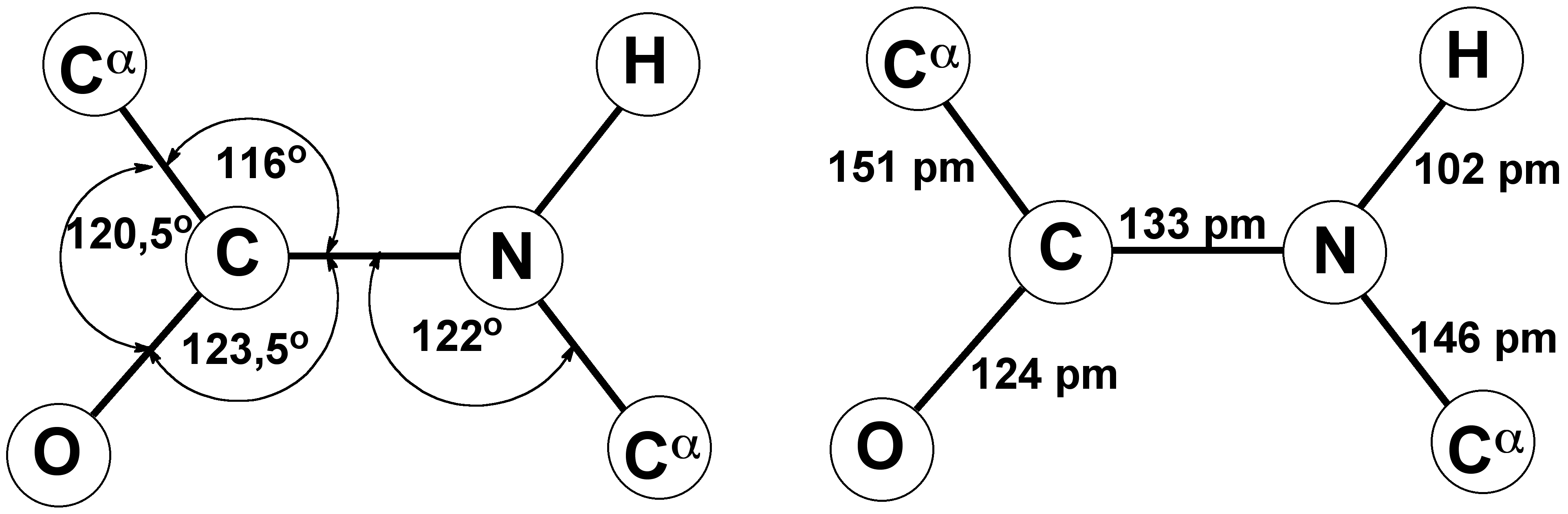 Trans-Peptide Bond